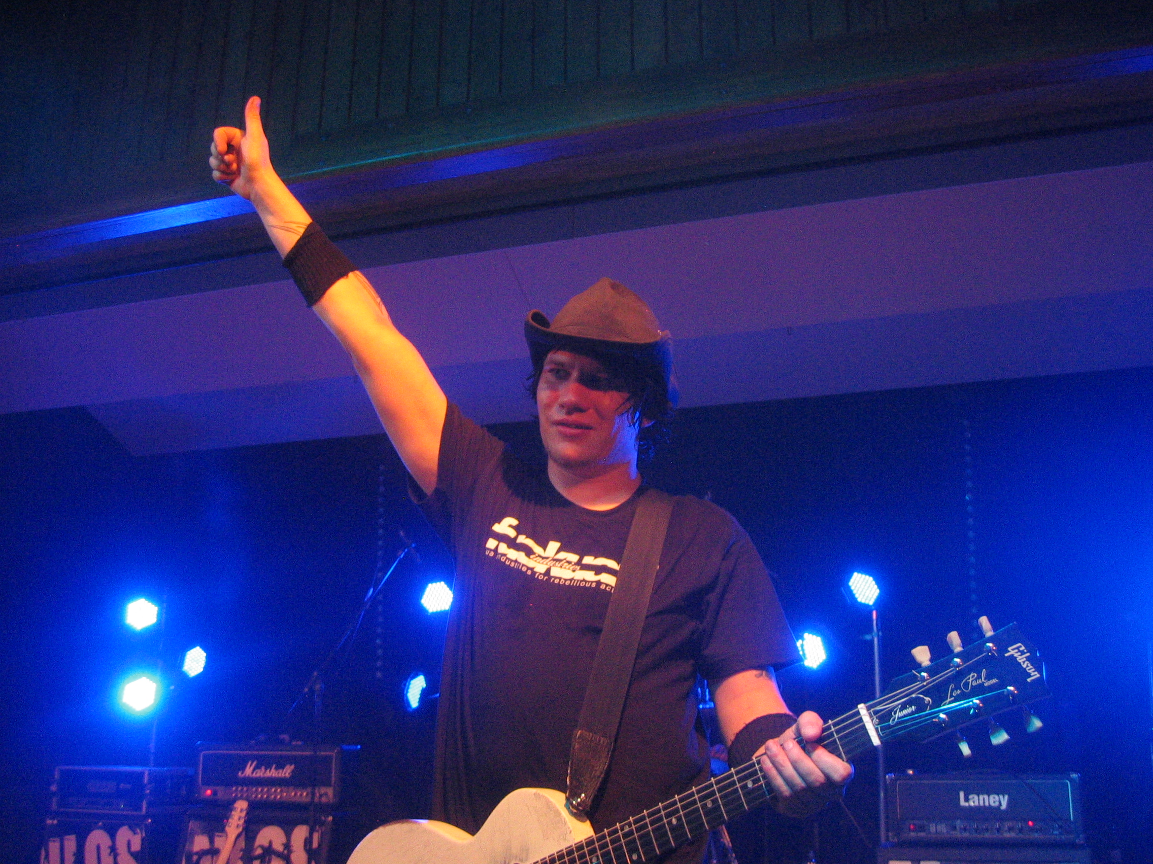 Max Lummer, guitarist of german punkrockband Planlos.